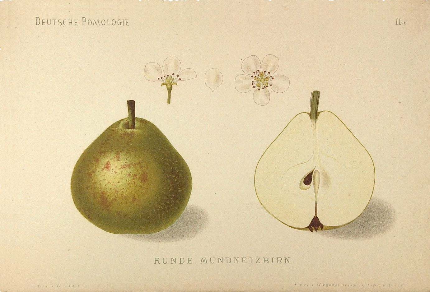 Page 40 from Deutsche Pomologie — Birnen, by Wilhelm Lauche, 1882. Published by Deutsche Pomologen-Vereins (German Pomological Society). Part of a series from the same book. The others can be found in Category:Deutsche Pomologie - Birnen Depicted pear cultivar: Runde Mundnetzbirn